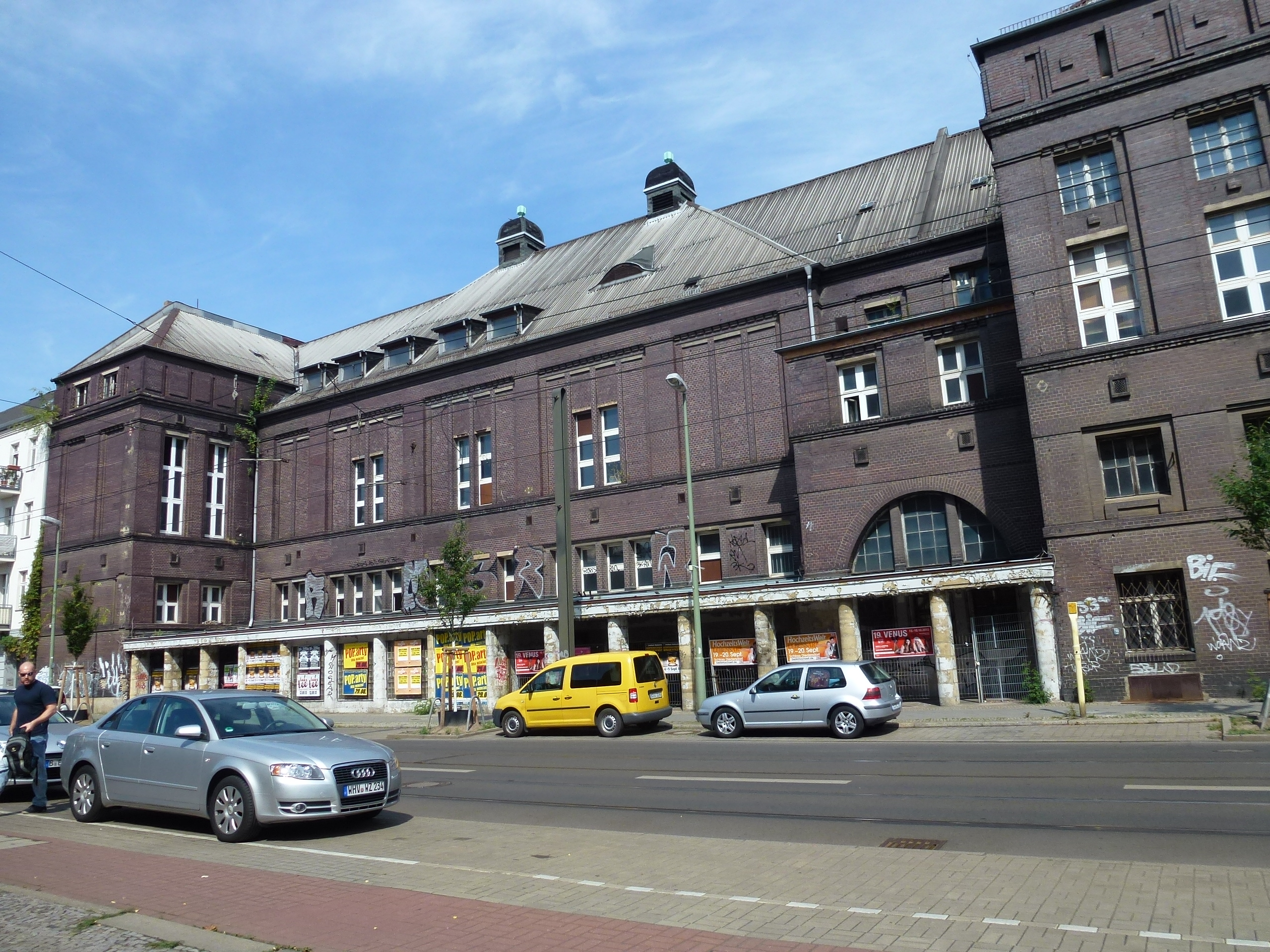 Berlin-Oberschöneweide Wilhelminenhofstraße Akkumulatorenfabrik Oberspree, Afa, Teilobjekt Arbeiterwohlfahrtsgebäude